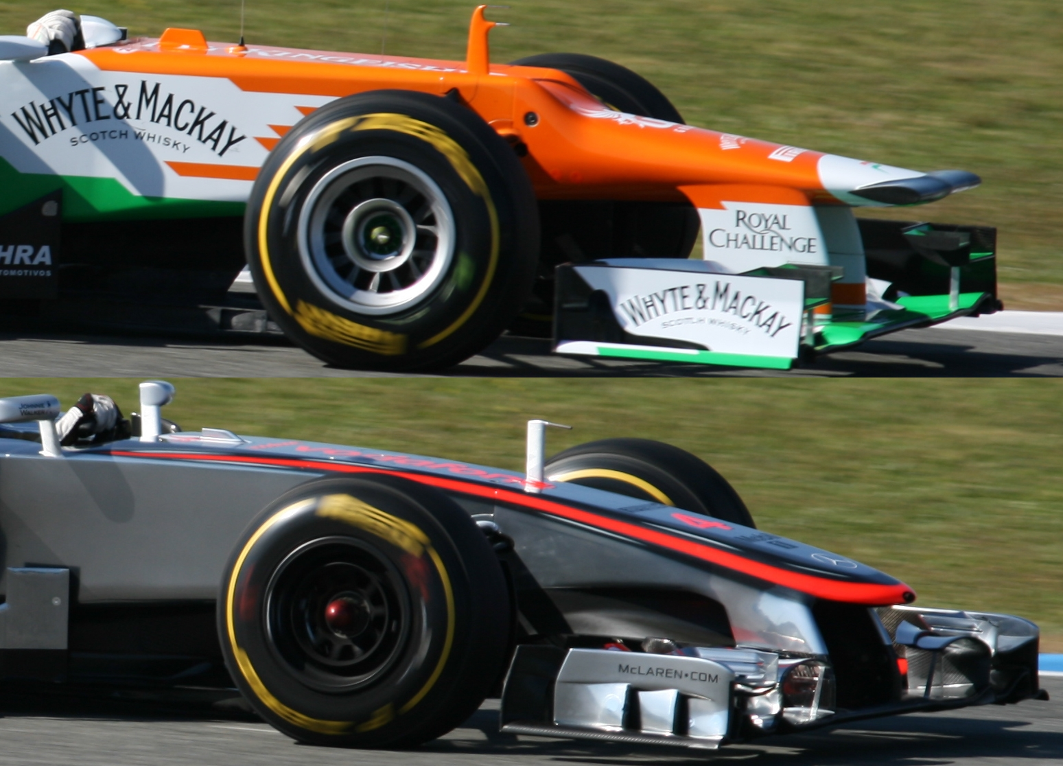 Comparison nose Force India VJM05 (up) and McLaren MP4-27 (down)